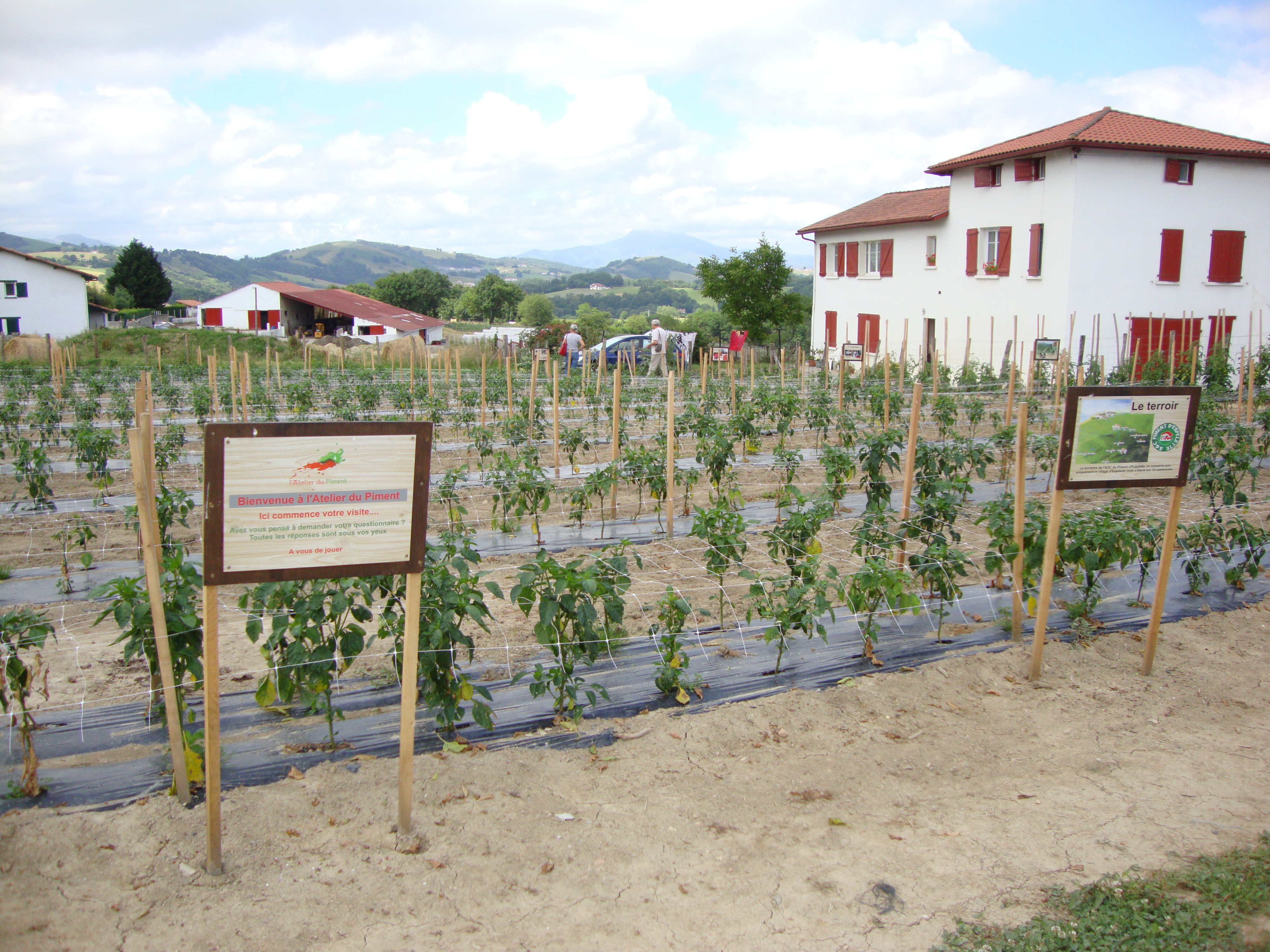 Espelette (Pyr-Atl.,Fr) field of Espelette_pepper.